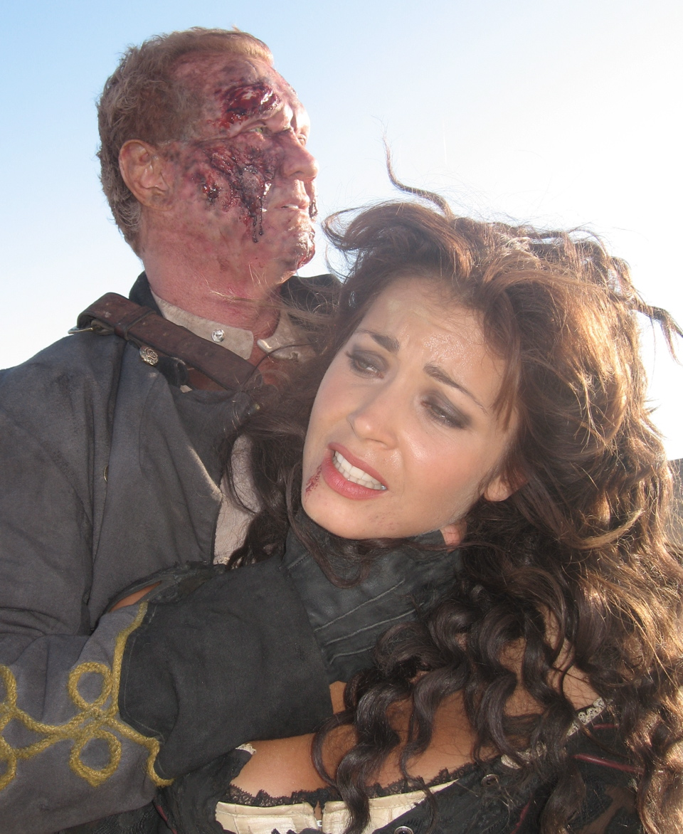 Diamond Dallas Page as Scorpius in the film Gallowwalker.